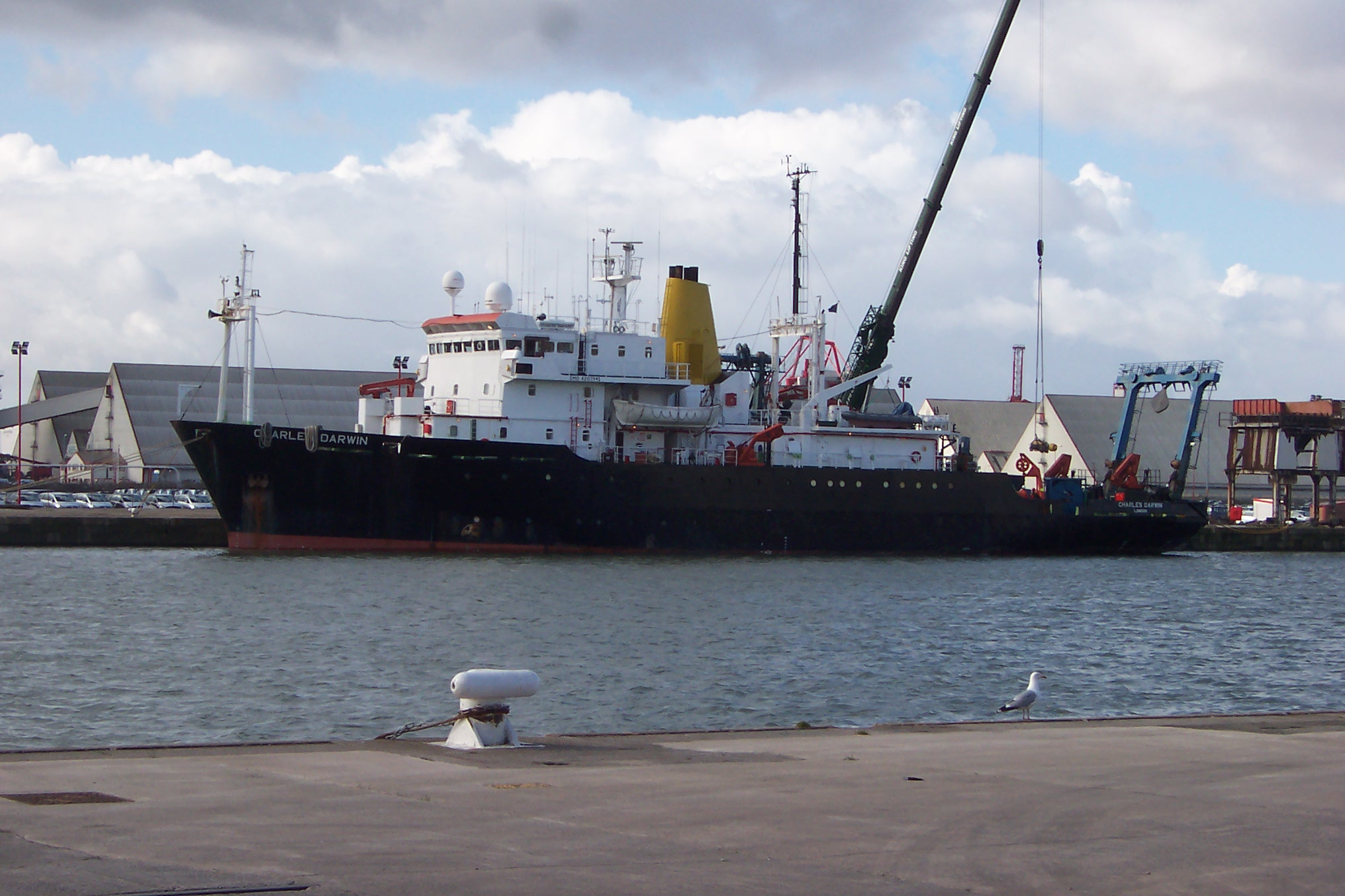 RRS Charles Darwin in Avonmouth Dock